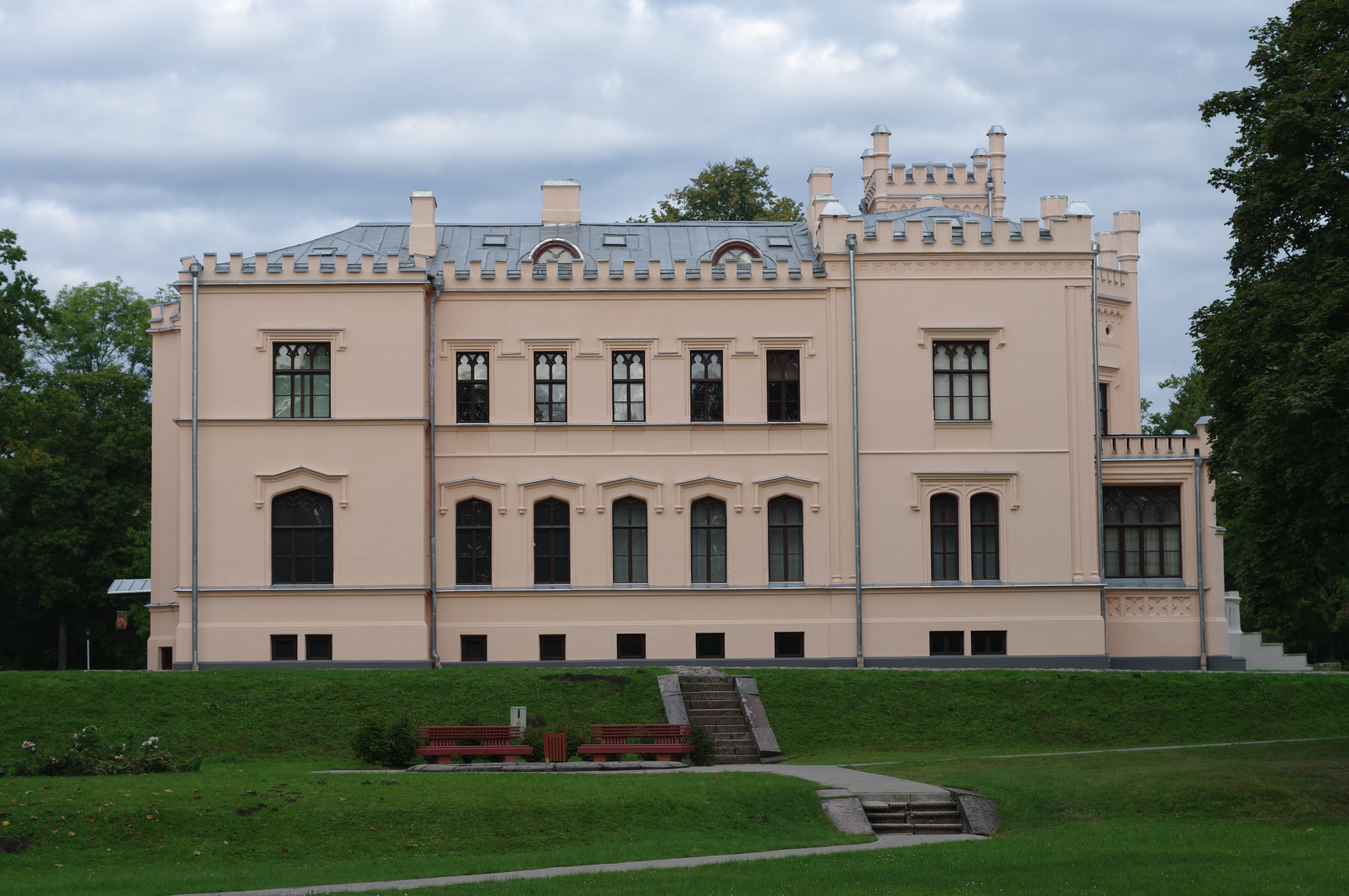 This photo was taken during a Wikiexpedition set up by Wikimedia Eesti. You can see all photographs in category WMEE-LV2013.